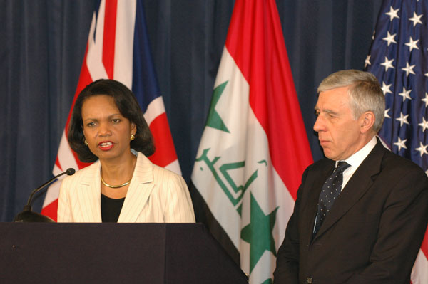 Secretary Rice and British Foreign Secretary Jack Straw speaking at a press conference in Baghdad, Iraq.